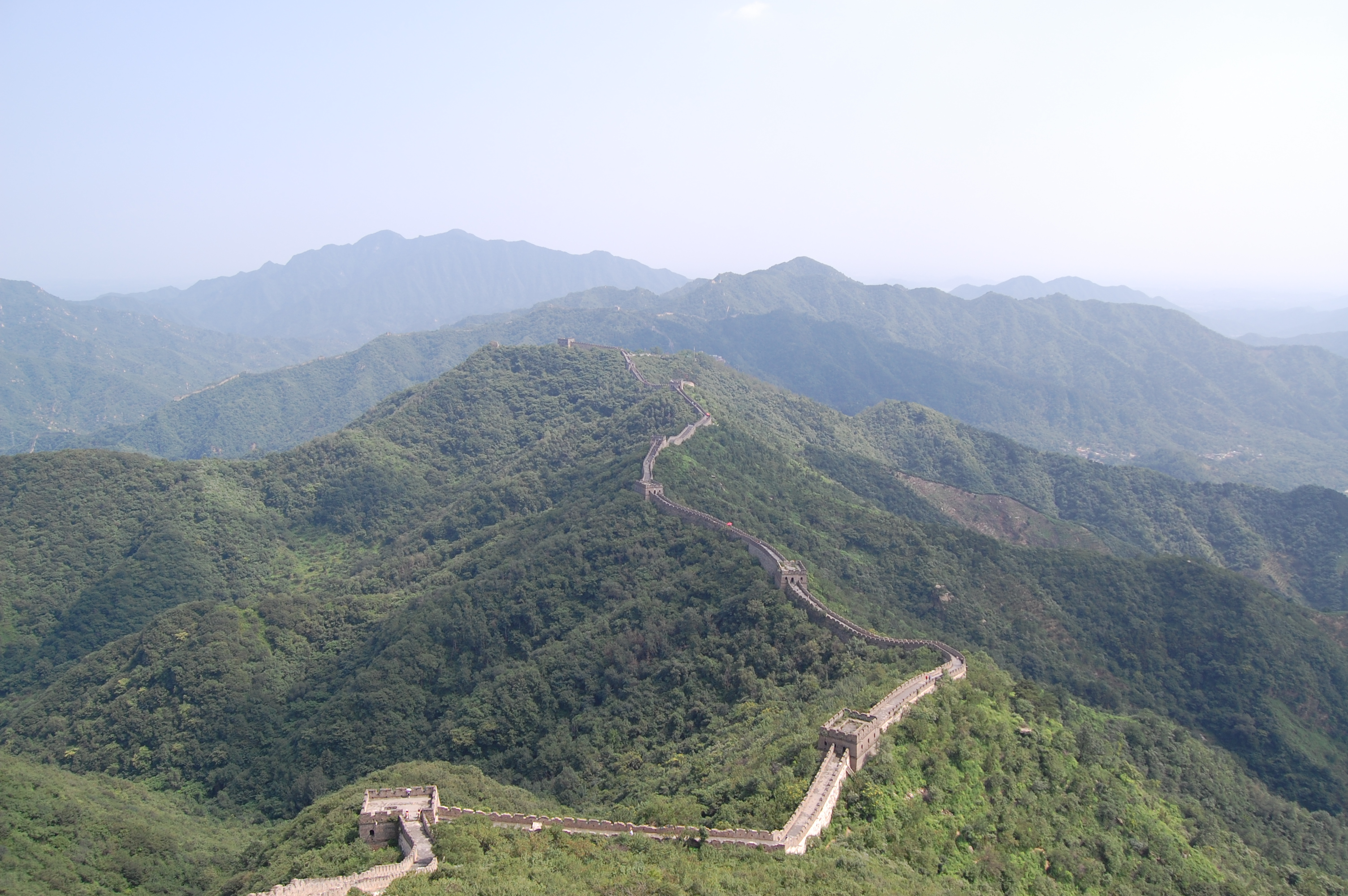 Great Wall of China at Mutianyu